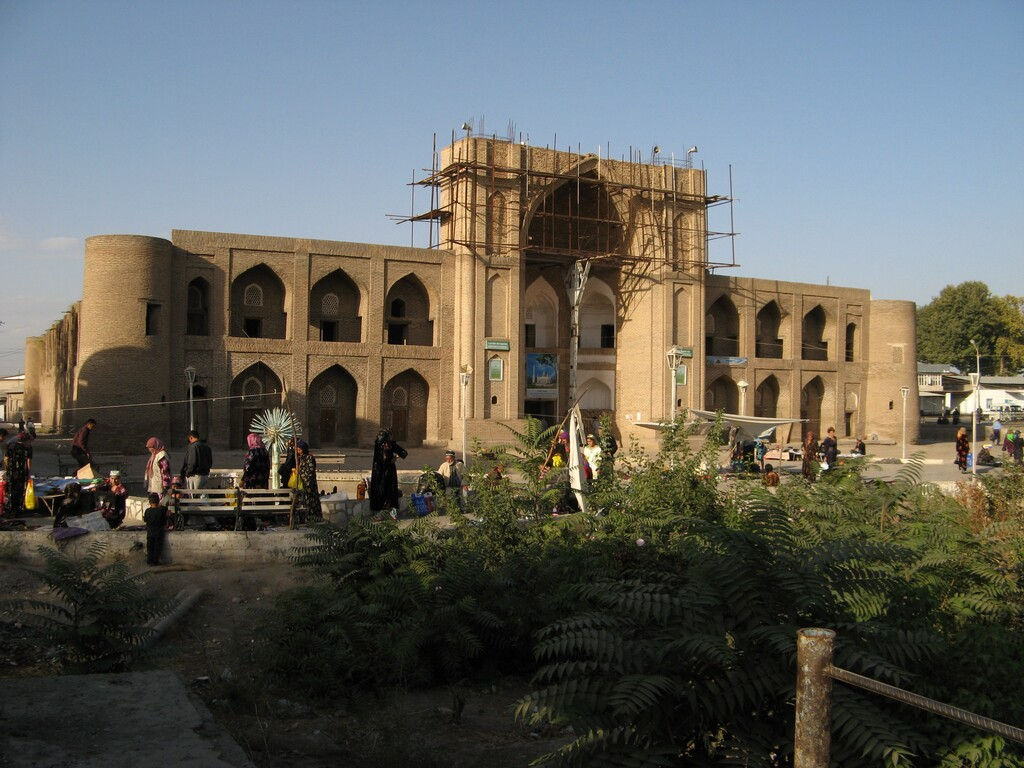 Sayid Atalik madrasah in Denau, Uzbekistan